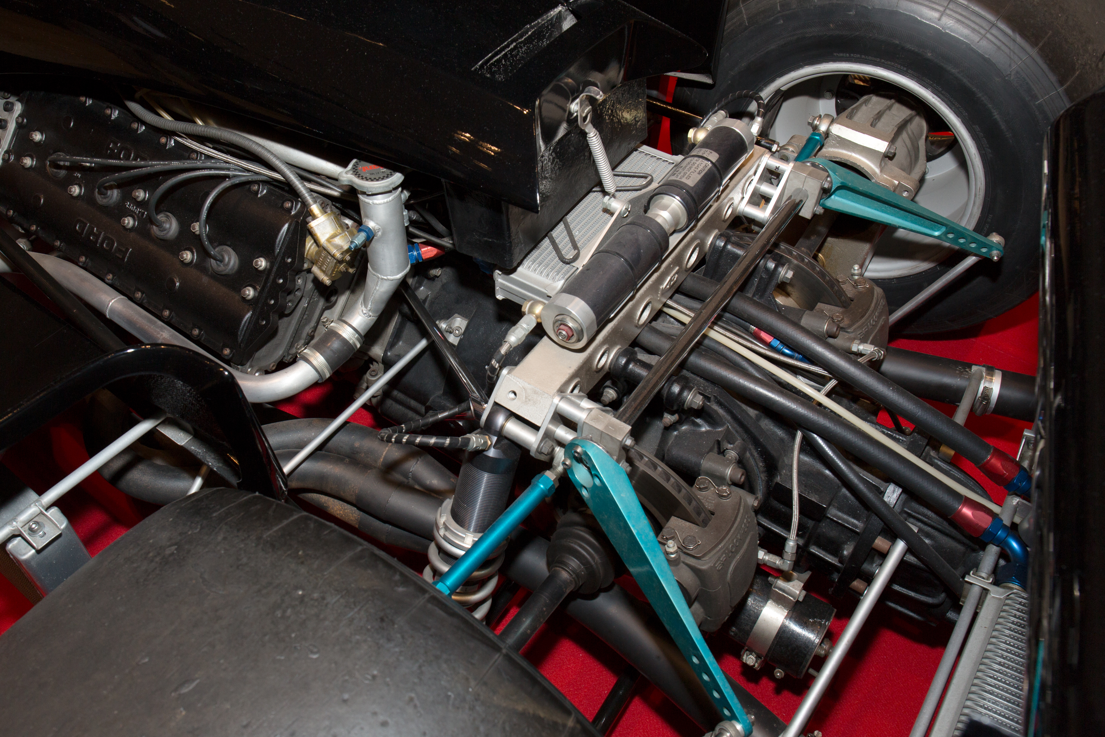 Kojima KE007